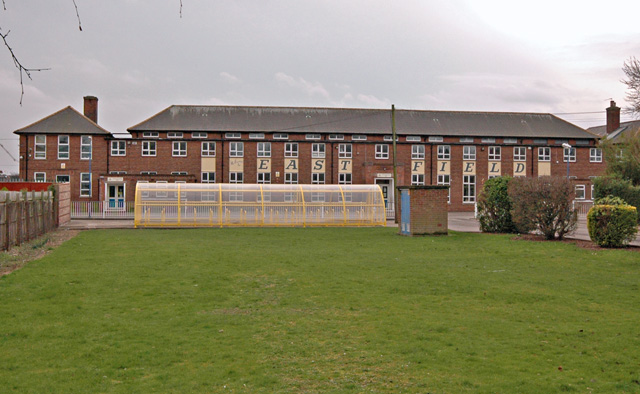 Eastfield Primary School On Anlaby High Road. For more details, see this